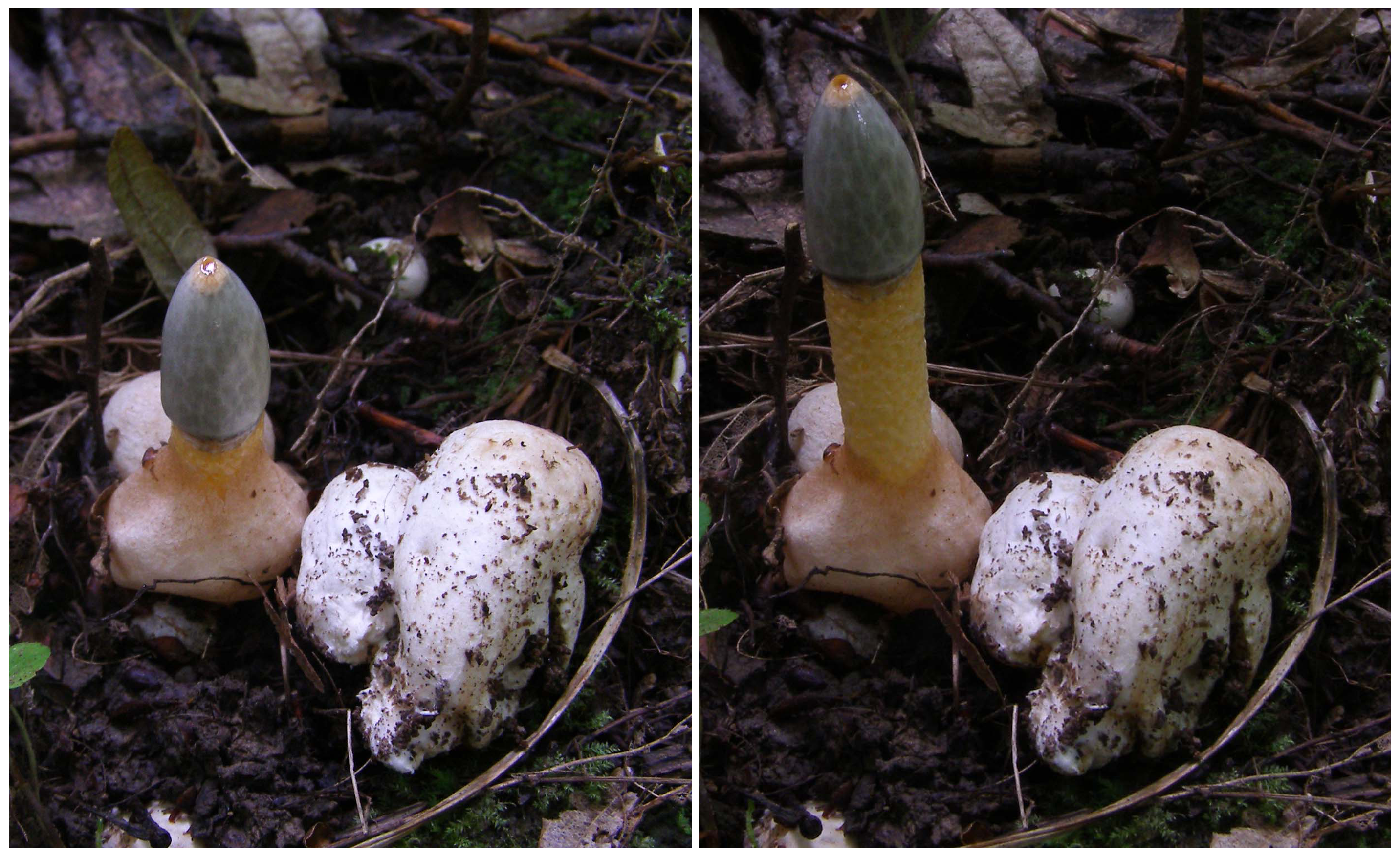 The same fruit body of Mutinus caninus (Huds.) Fr. (Phallaceae), photographed with time interval one hour. The photo demonstrates the characteristic for the representatives of the family Phallaceae speed of fruit body development. Mutinus caninus is listed in the Red Data Book of Ukraine in the category "rare". The specimen was found 18 July 2008 in the Nature Reserve "Medobory" (Ternopil Oblast, Ukraine).